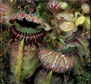 Kingdom: Plantae — Eudicots, Rosids, Eurosids I Order: Oxalidales Genus: Cephalotus follicularis Albany or Western Australian Pitcher Plant One species occupying peaty swamps in southwestern Australia.